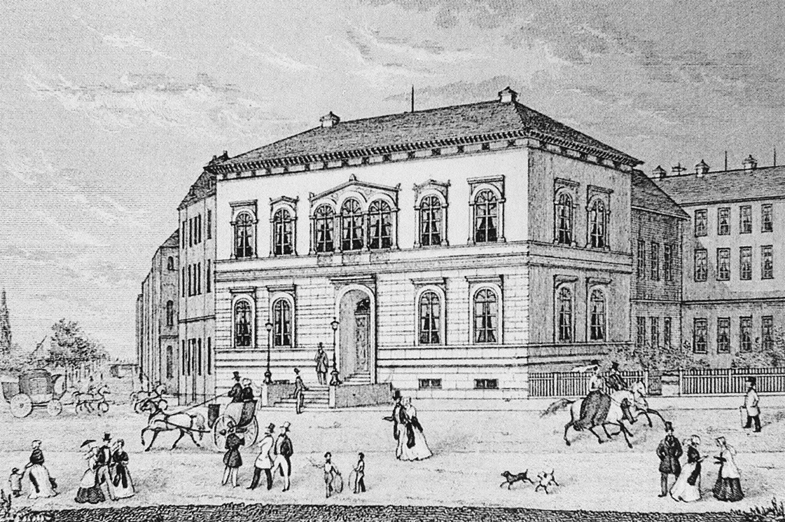 The former house of the club Union von 1801 Am Wall 102, in Bremen, Germany, built 1838 by Jacob Ephraim Polzin.